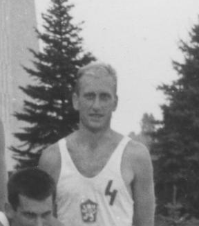 Jaroslav KRIVY 1961 Summer Universiade - Sofia Basketball player